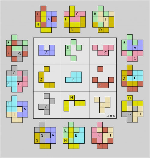 A 3x3 geomagic square using nine pentominoes, normal, weakly-connected and disjoint.